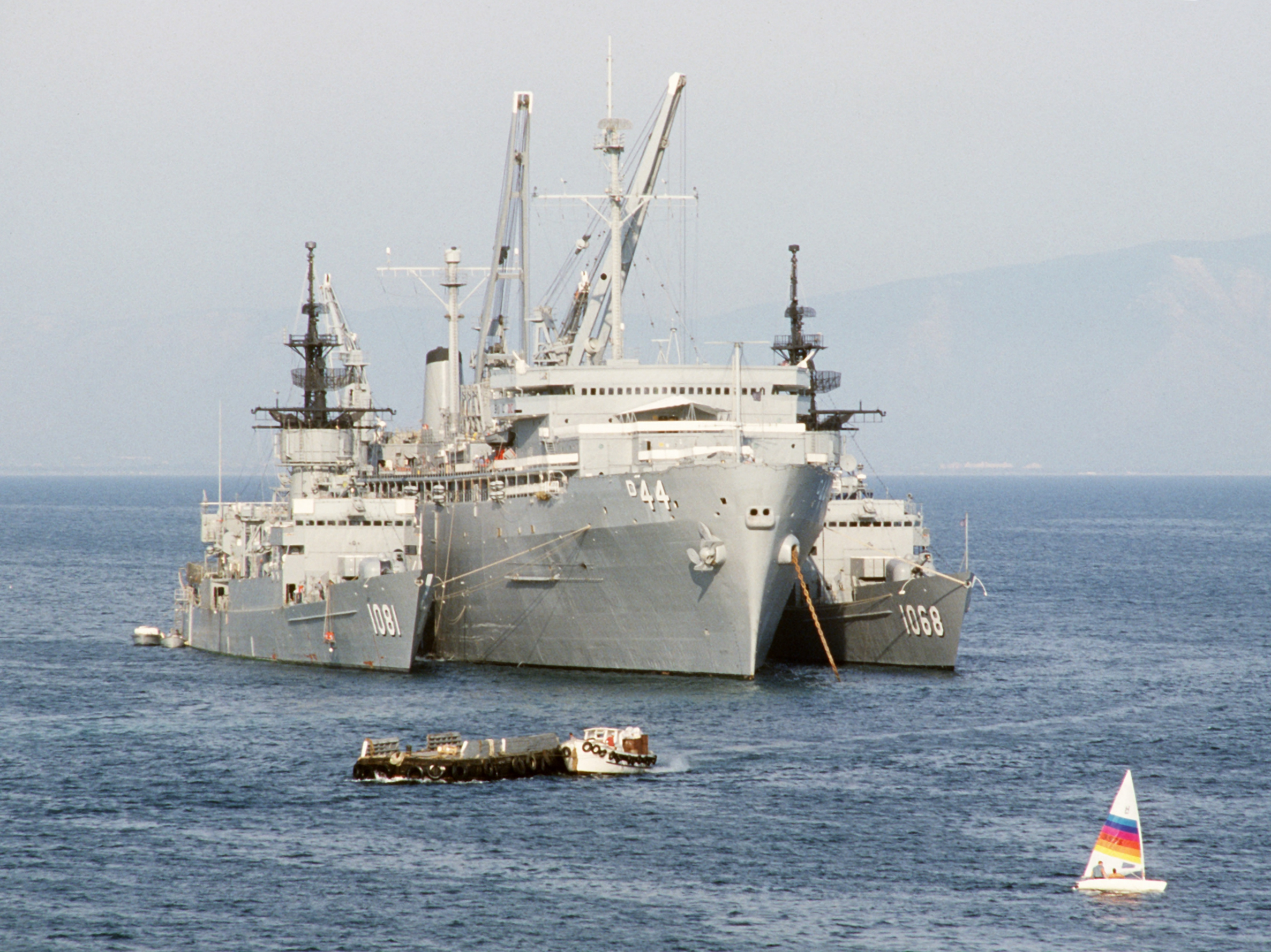 The U.S. Navy frigate USS Aylwin (FF-1081), the destroyer tender USS Shenandoah (AD-44) and the frigate USS Vreeland (FF-1068) at anchor in the Mediterranean Sea. The Shenandoah was performing repairs on Aylwin and Vreeland.